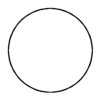 Geometric figure: circle Gjord av Användare:Anp. PD; se Användare:Habj/Upphovsrätt inklusive diskussionsidan This image of simple geometry is ineligible for copyright and therefore in the public domain, because it consists entirely of information that is common property and contains no original authorship.